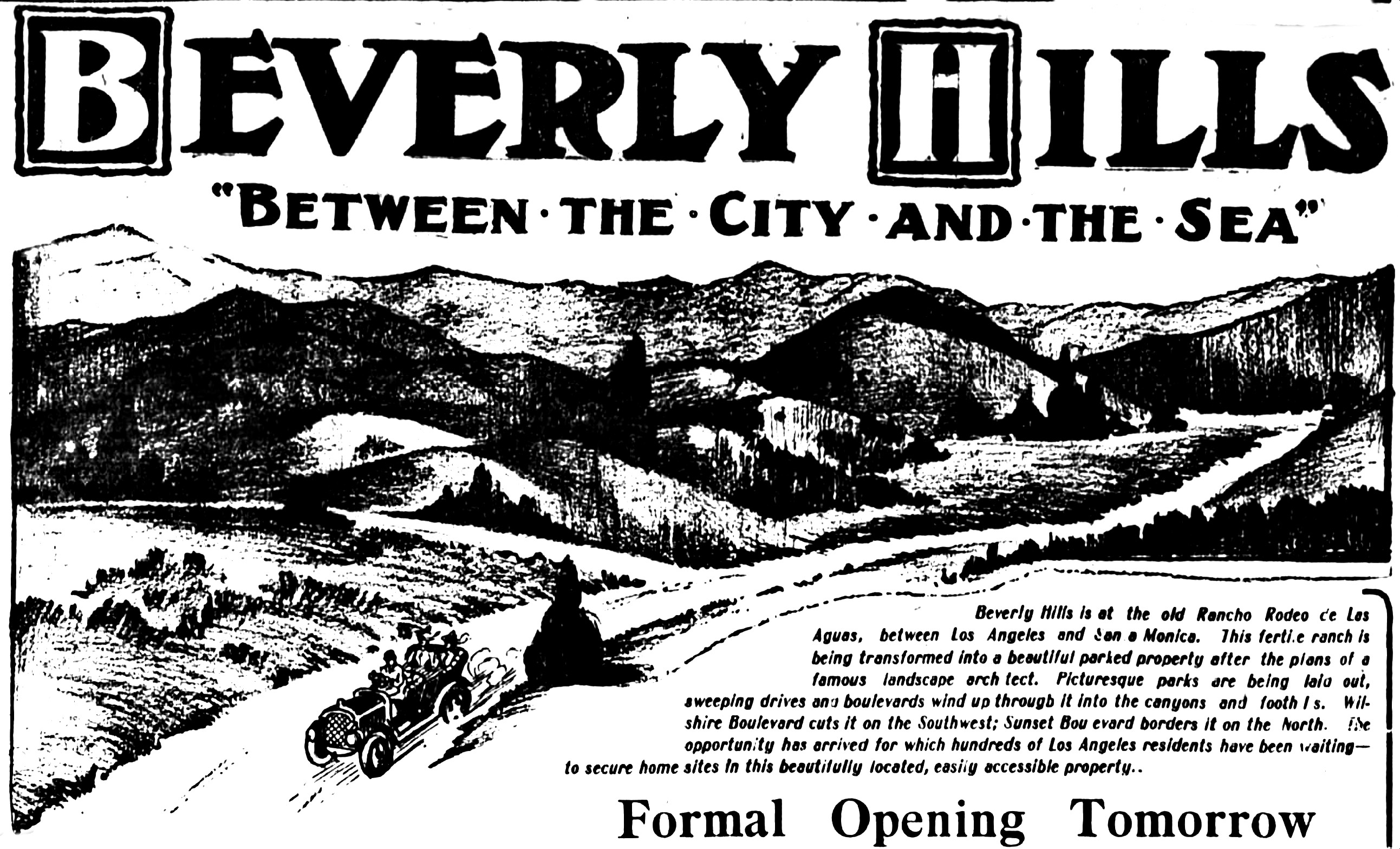 Top part of an advertisement for a new subdivision to be called Beverly Hills, printed in the Los Angeles Times of October 21, 1906